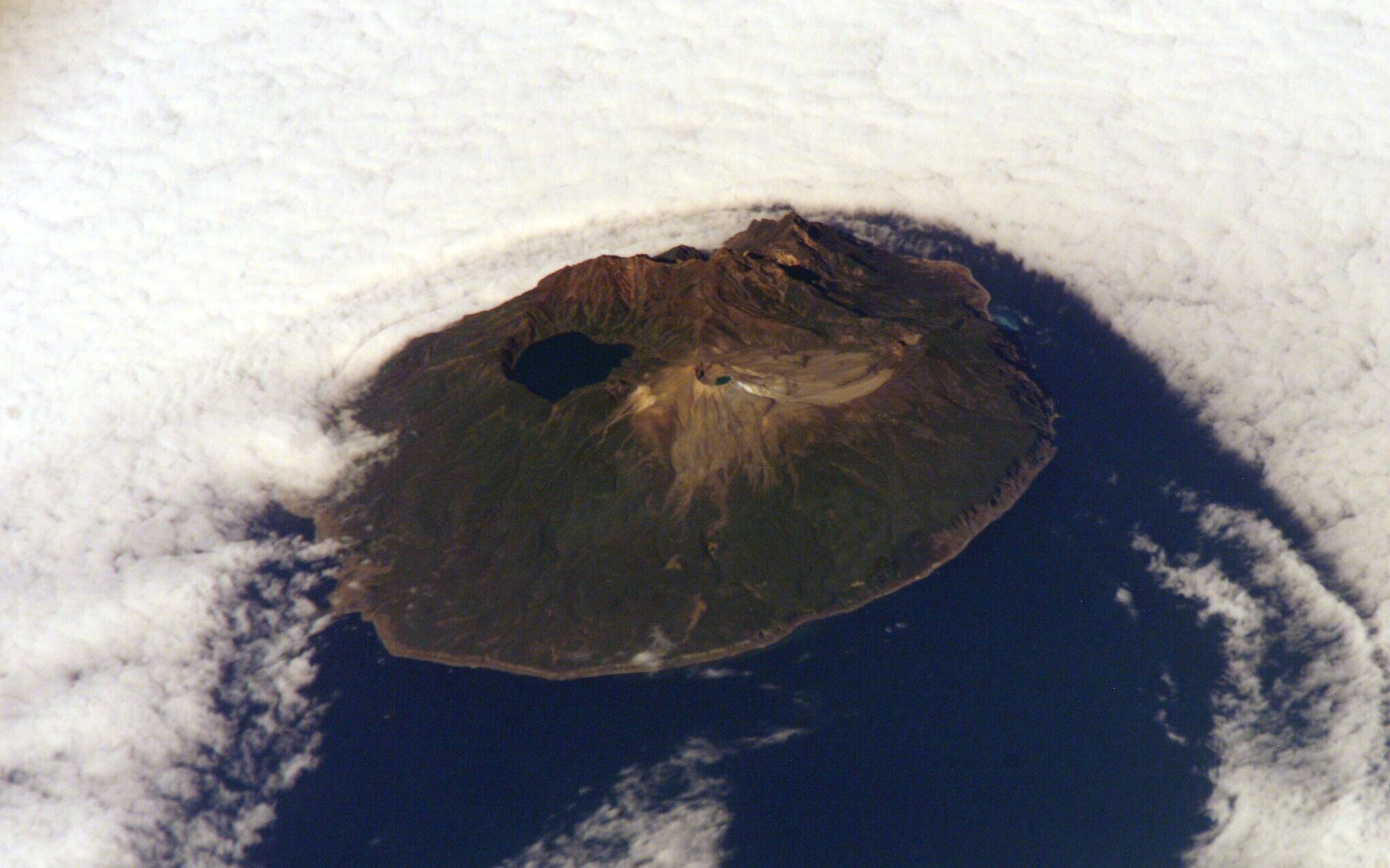 NASA picture of Ketoy Island